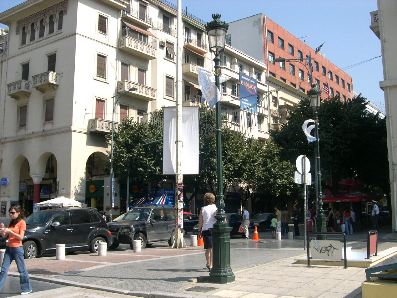 Between Tsimiski Street and Aristotelous Square in Thessaloniki, Greece.